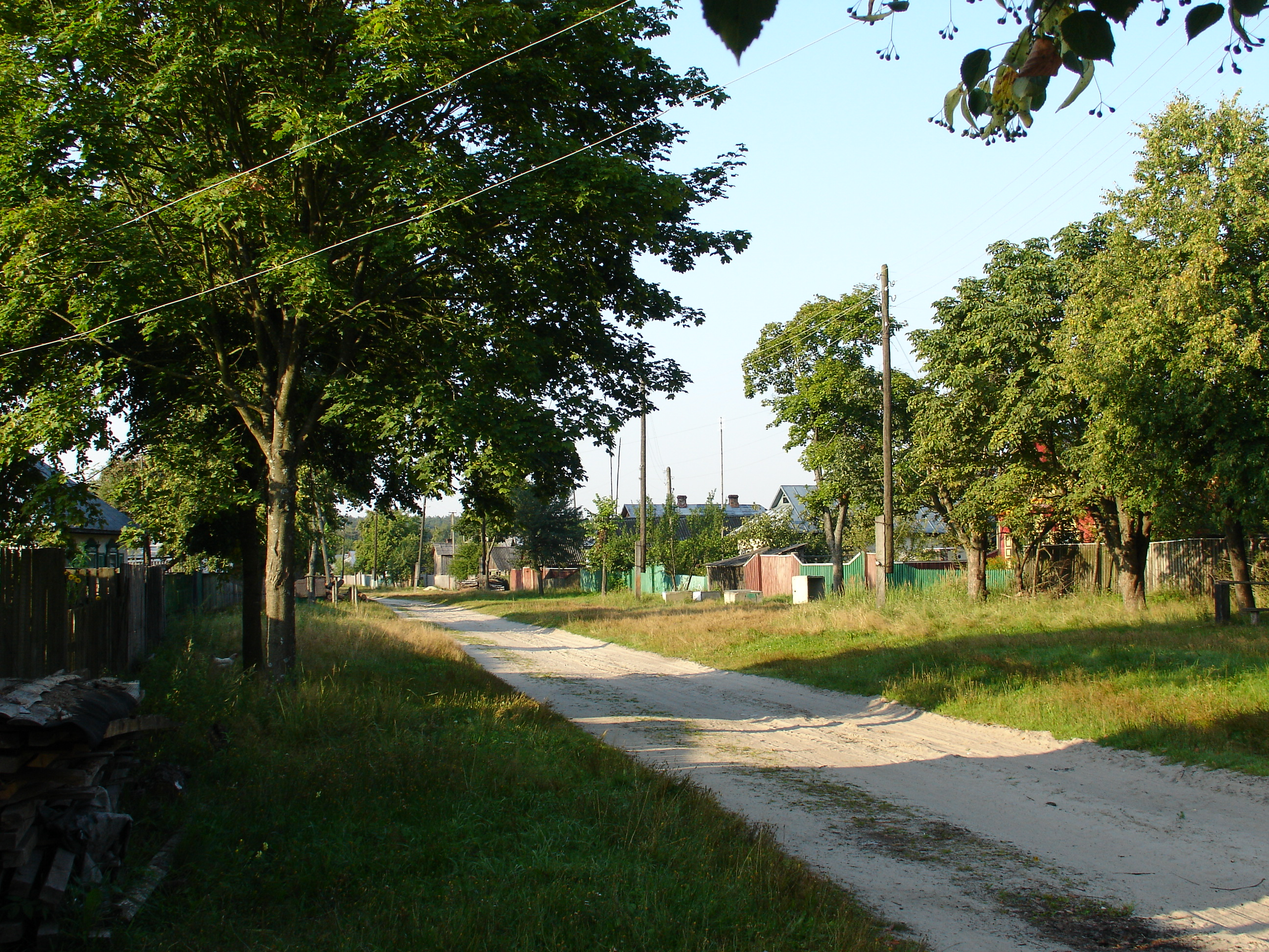 Shevchenka Street in Oleshnya, Ripky Raion, Ukraine